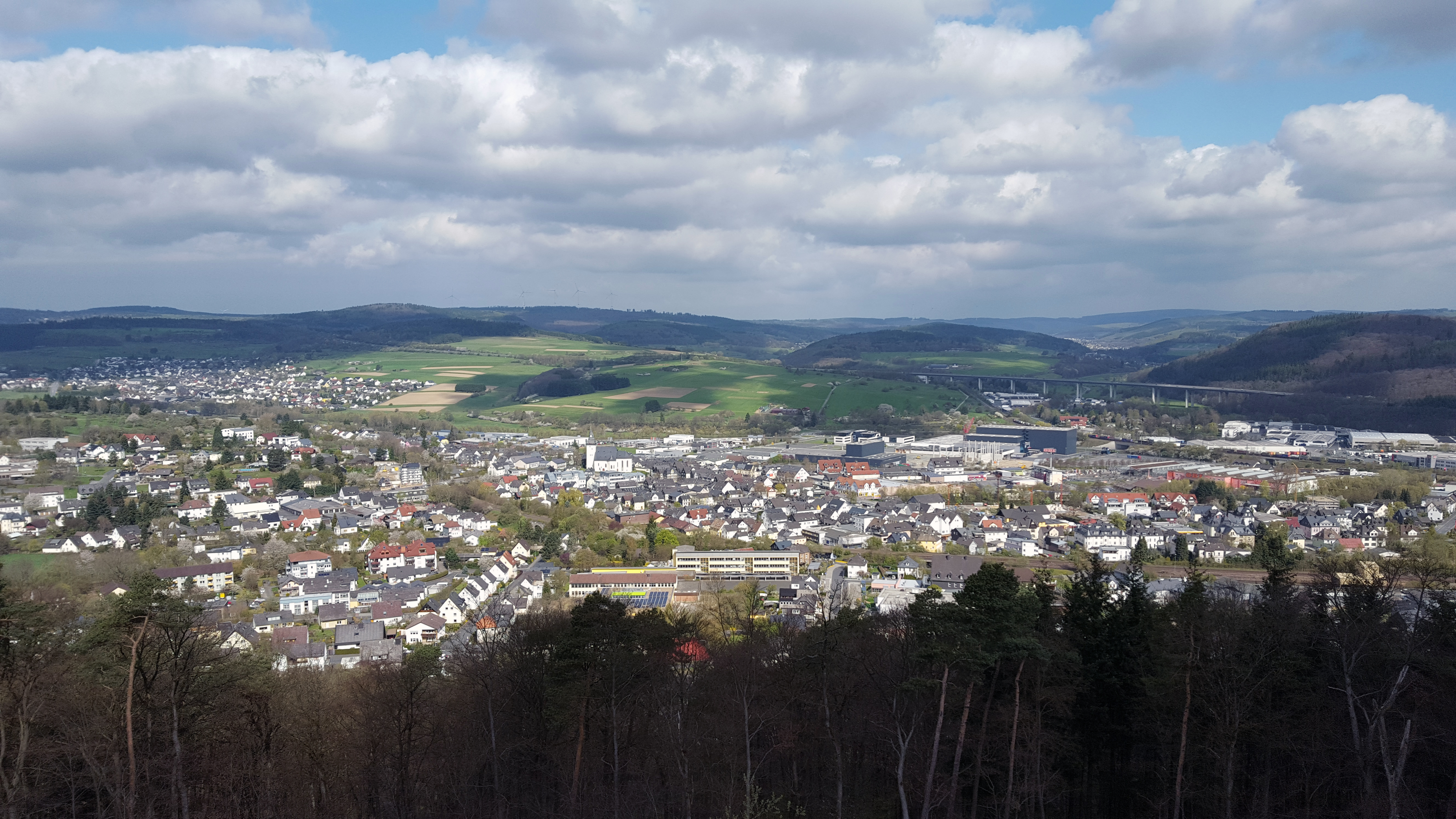 Haiger vom Eduardsturm aus gesehen